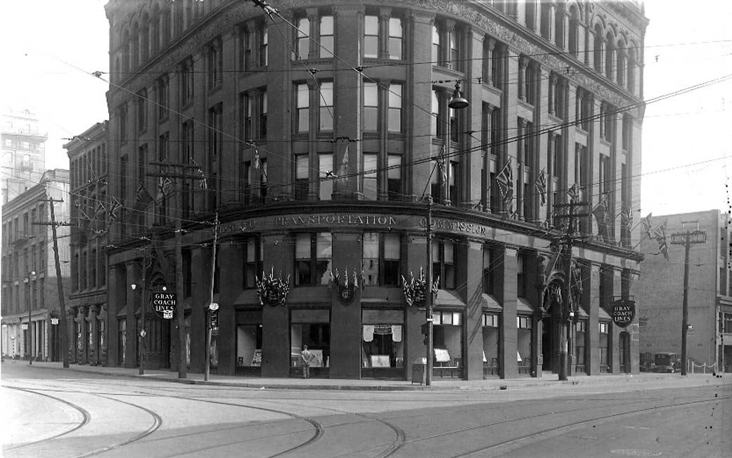 Imperial T.T.C. head office building, decorated for Toronto Centennial. (Toronto, Canada).